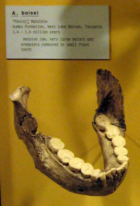 At the Cleveland Museum of Natural History